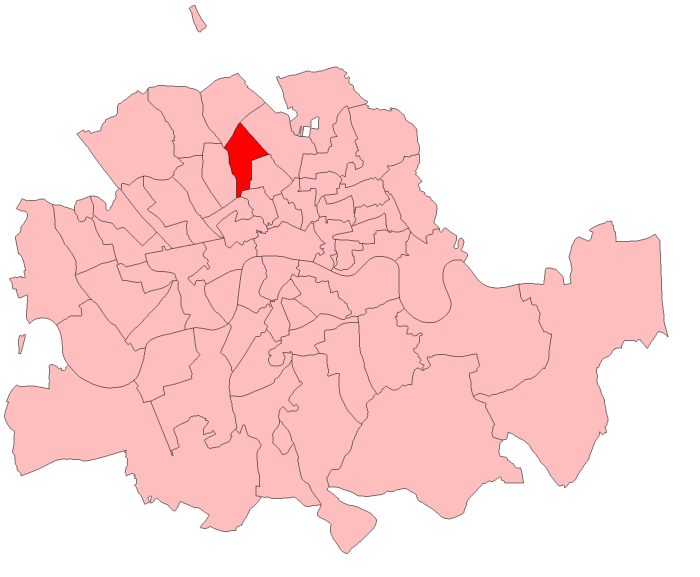 A map of Islington West constituency within the Metropolitan Board of Works area, as it existed from 1885 to 1918.